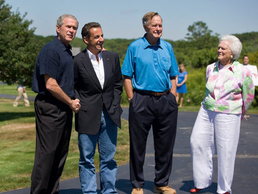 President Nicolas Sarkozy of France is welcomed to Walker’s Point by President George W. Bush, former President George H. W. Bush and his wife Barbara Bush Saturday, August 11, 2007, in Kennebunkport, Maine. White House photo by Shealah Craighead